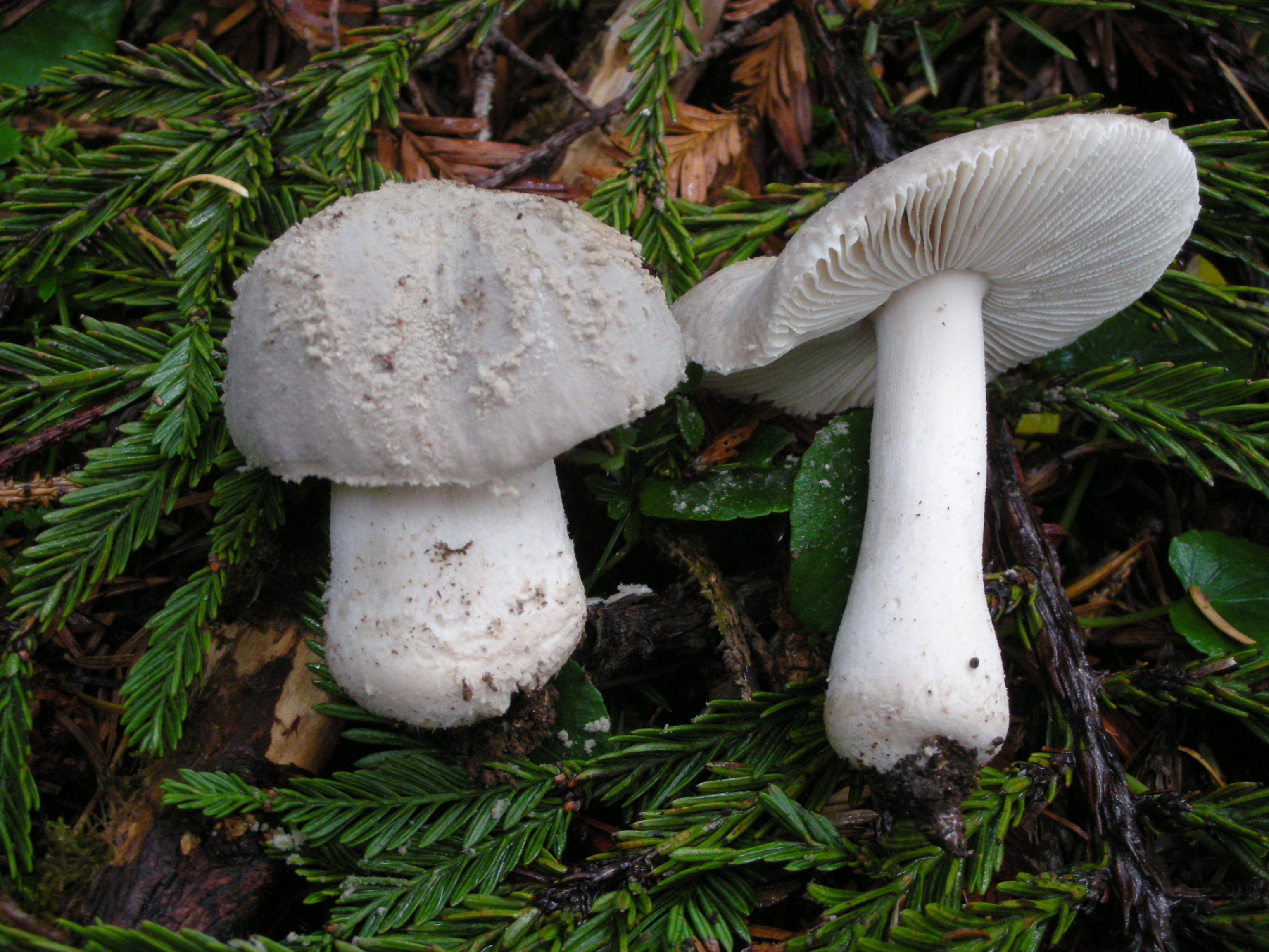 Author: Ron Pastorino Source: Mushroom Observer URL: This image is Image Number 30201 at Mushroom Observer, a source for mycological images. This tag does not indicate the copyright status of the attached work. A normal copyright tag is still required. See Commons:Licensing.